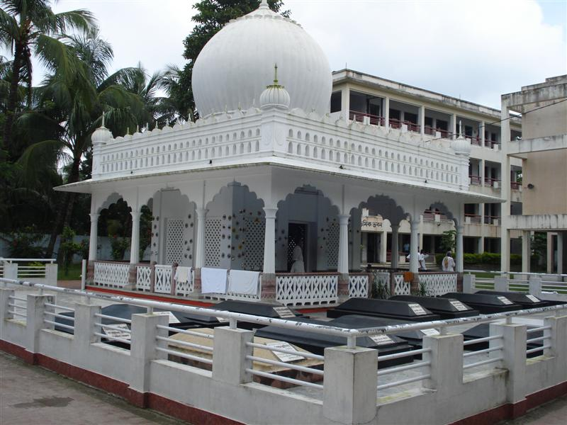 Lalon Shah's tomb and mazar in Kushtia, Bangladesh